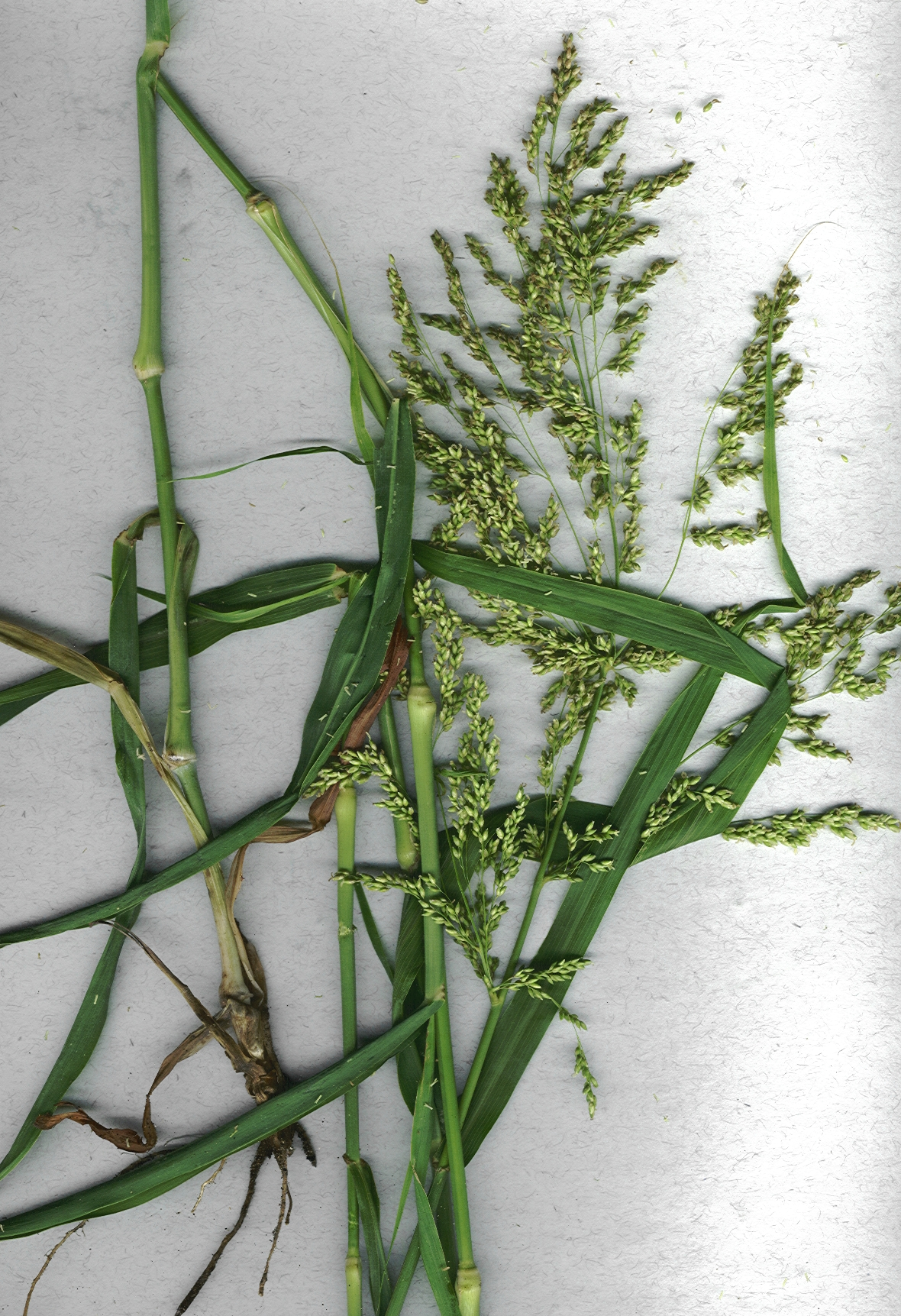 Panicum antidotale (plant). Location: Maui, Waikapu